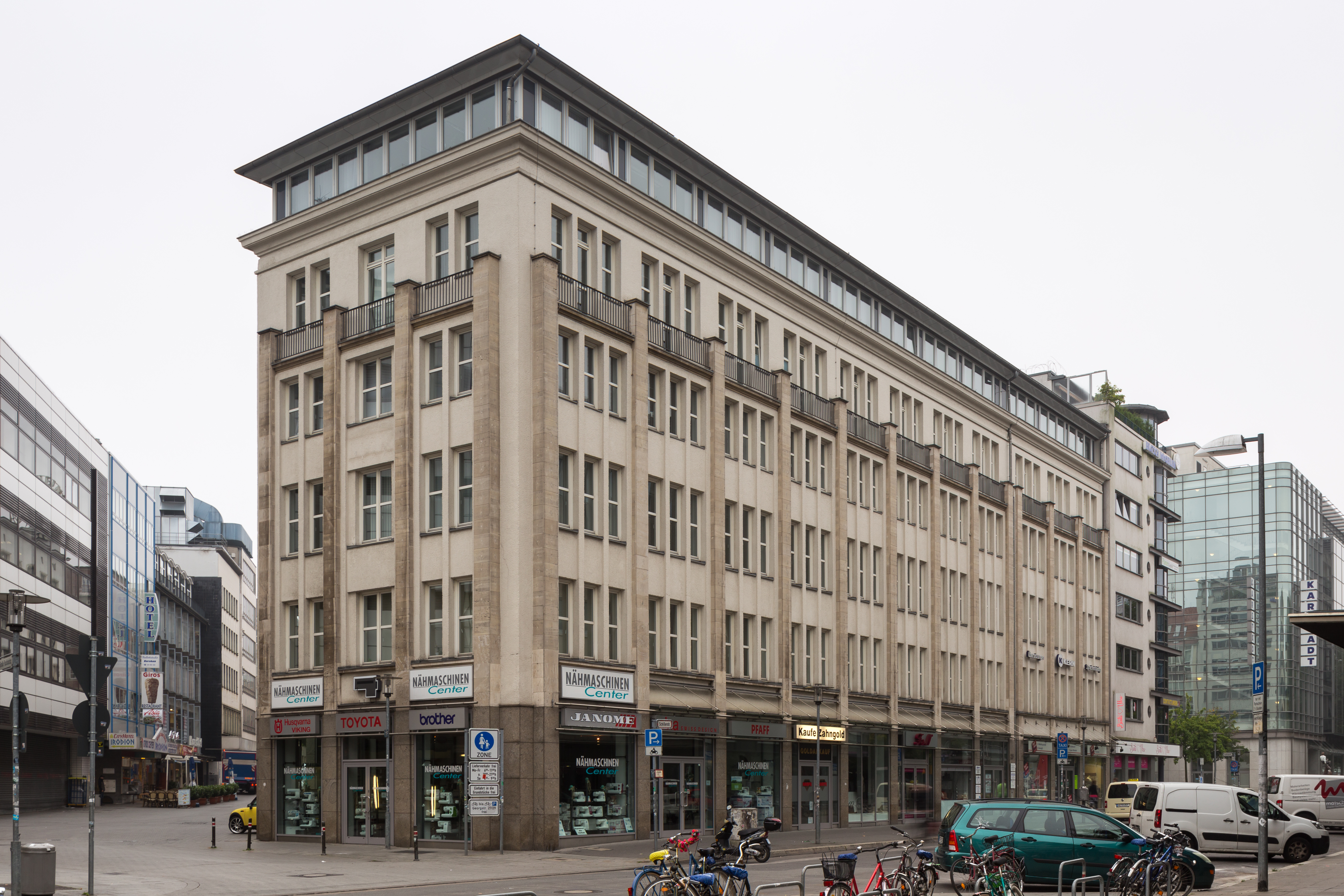 Office building located at Schillstrasse in Mitte quarter of Hannover, Germany.